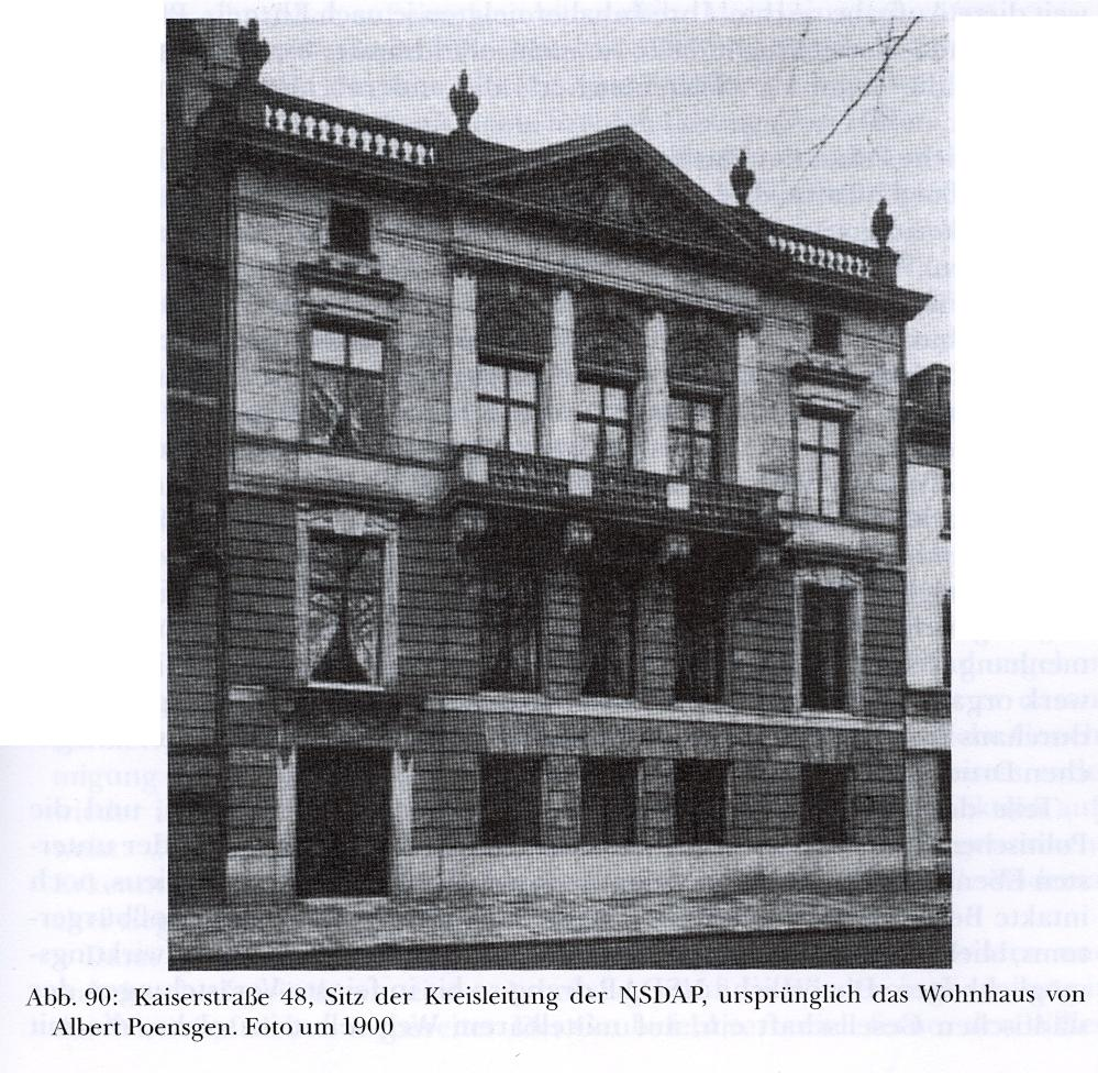 t